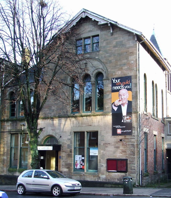 Arts Guild Theatre. On Campbell Street. Yes, believe it! That is Greenock actor Richard Wilson (aka Victor Meldrew) encouraging locals to support the Guild. The building formerly housed the west end baths, photos of which can be found on the Guild's web site The date stone above the front door (obscured by the tree) can be seen here 657092.